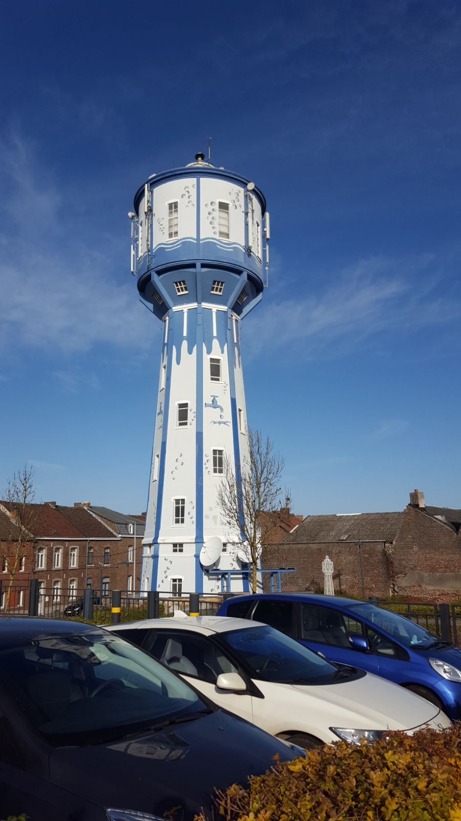 Picture of a watertower in Landen.